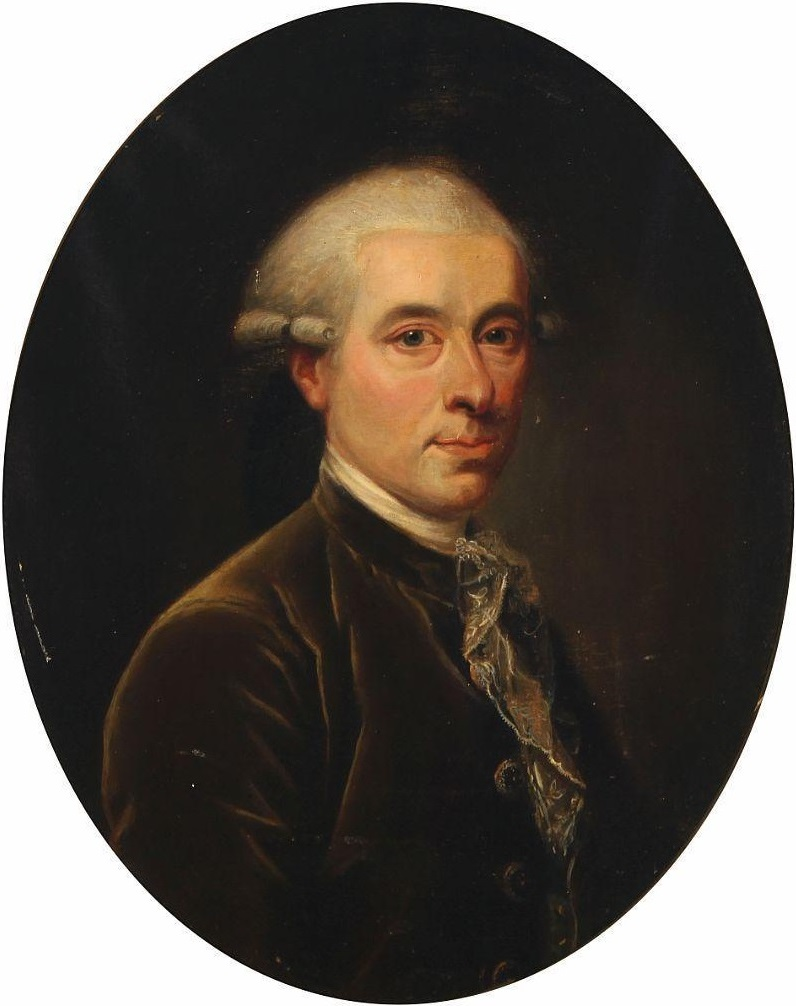 Portrait part of a pair, the other depicting his wife, Beate Albertine Sporon née Koefoed.